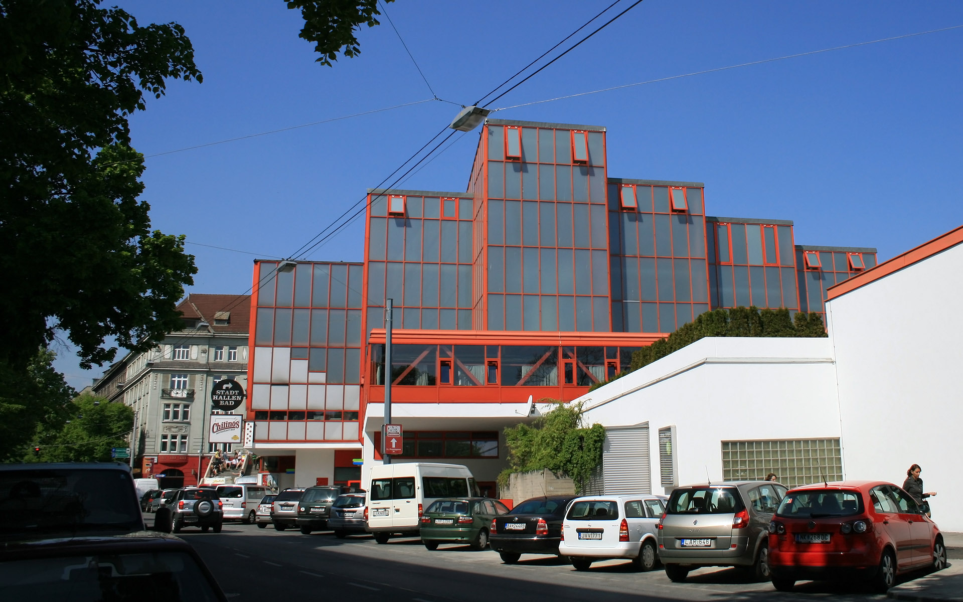 Stadthallenbad/Wiener Stadthalle (Vienna).